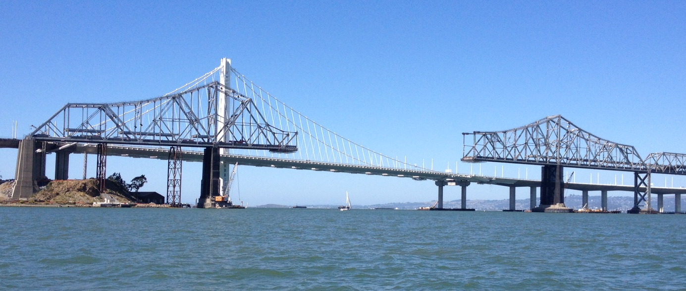 The old eastern span of the San Francisco-Oakland Bay Bridge is deconstructed in the reverse order of its construction , image taken 2014-08-23